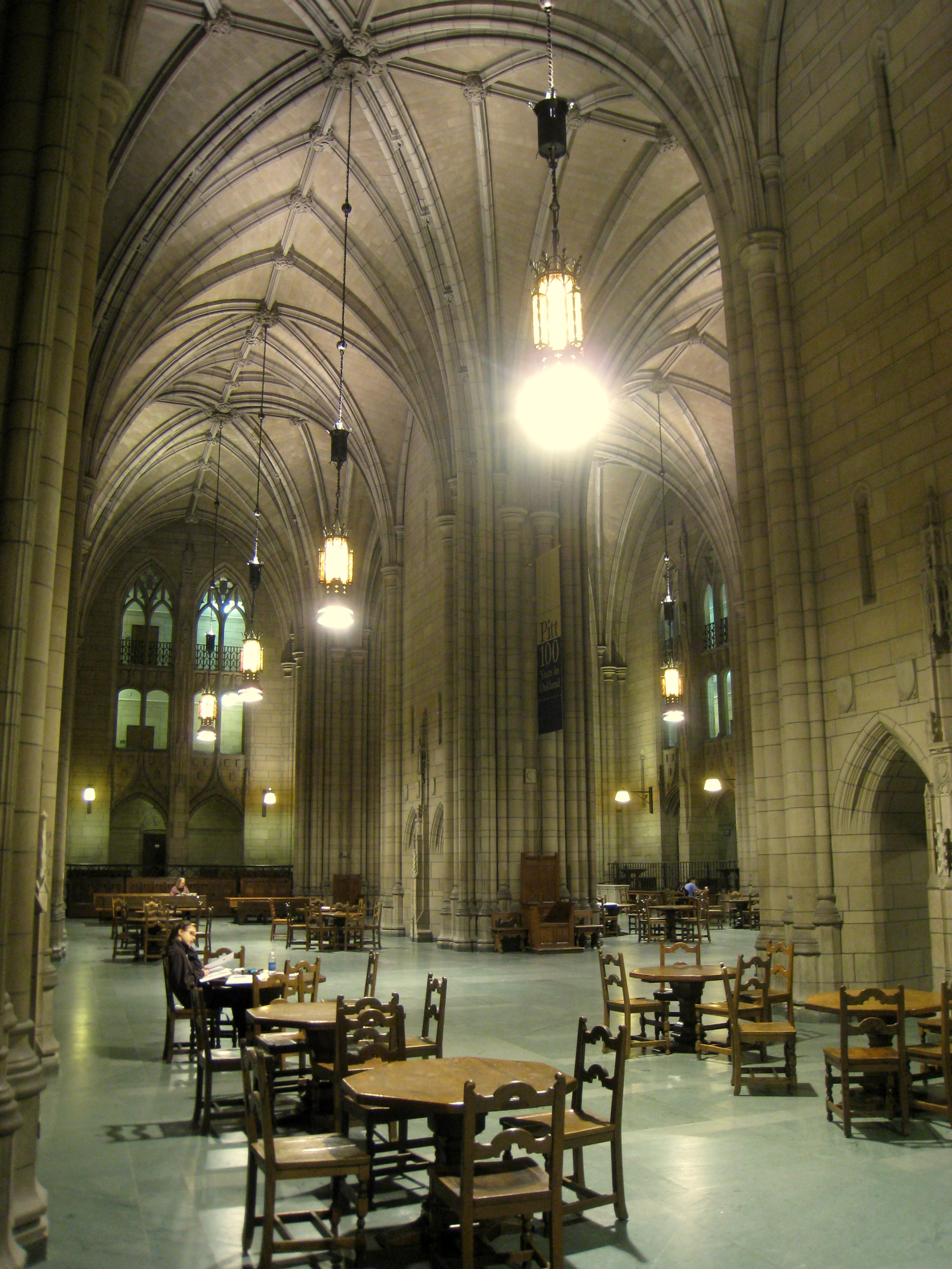 Commons Room (Cathedral of Learning), University of Pittsburgh, Pittsburgh, Pennsylvania, USA.